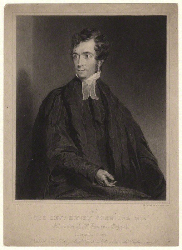 Portrait of Henry Stebbing (1799–1883), English cleric and man of letters.